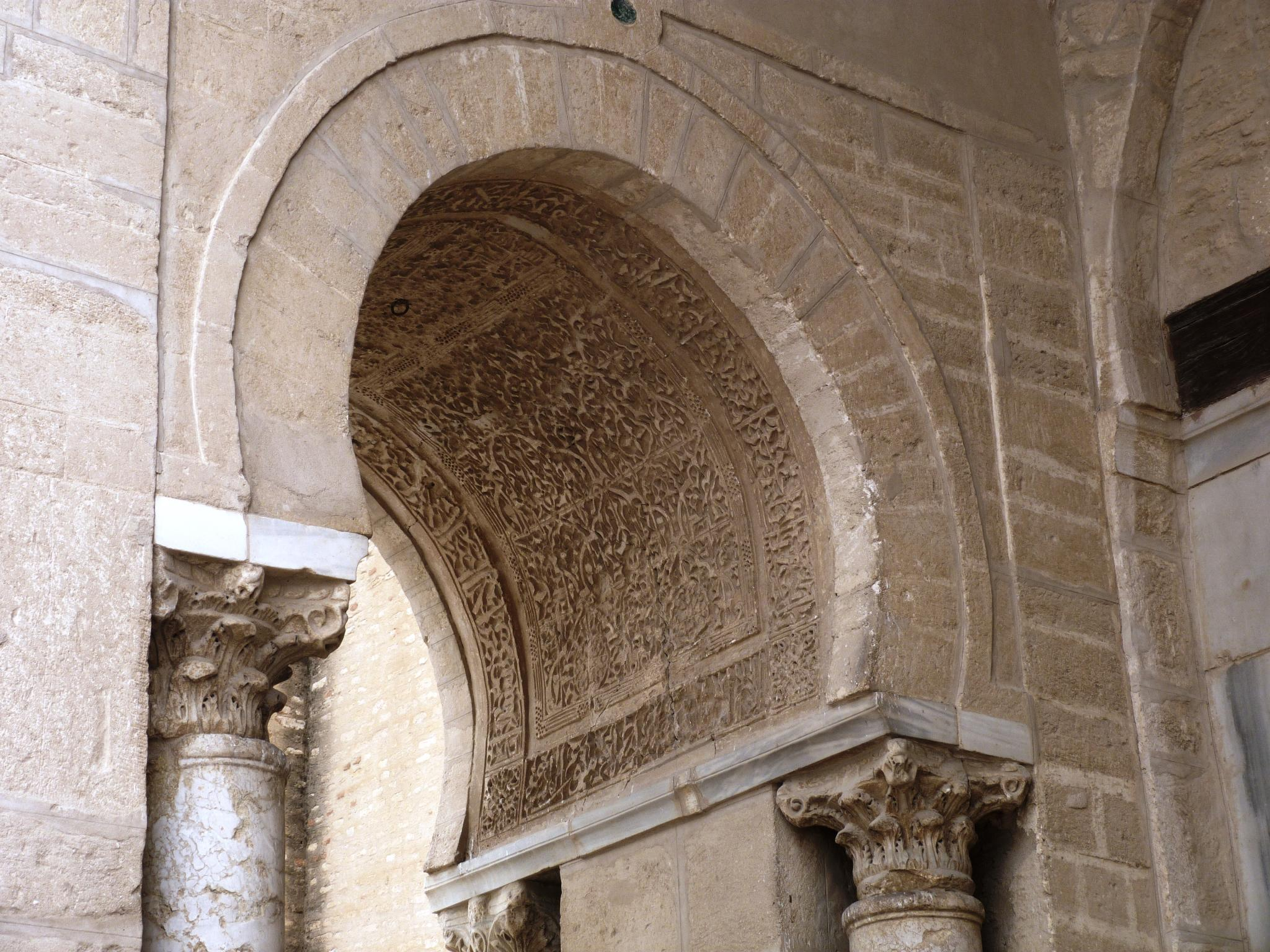 Ancient Roman capitals, and a stone relief in gate's horseshoe arch. At the Great Mosque of Kairouan, Tunisia.